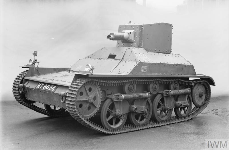 BRITISH ARMOURED FIGHTING VEHICLES 1918-1939 Light Tank Mk IA (A4E8) fitted with Horstman coil spring suspension.